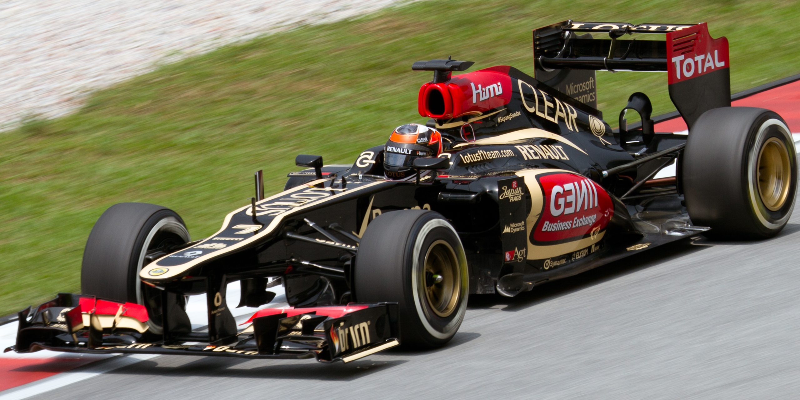 Formula One 2013 Rd.2 Malaysian GP: Kimi Räikkönen (Lotus) during the second practice session on Friday.